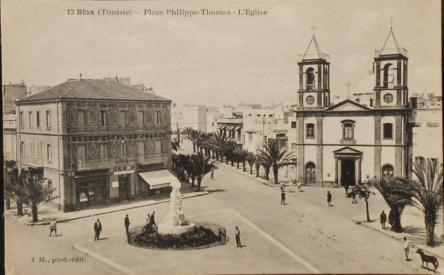 Place Philippe Thomas, Sfax, Tunisia in the 1910s. Philippe Thomas (1843–1910) was a French veterinarian and amateur geologist who discovered deposits of phosphates in Tunisia. The bust in the center of the square was torn down after independence